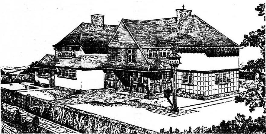 Model House, Olympia, perspective.